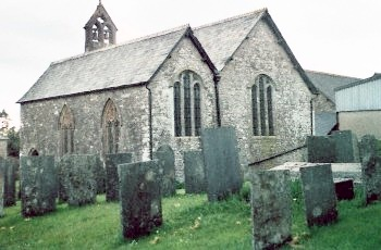 St Michael's parish church, Bulkworthy, Devon, seen from the southeast